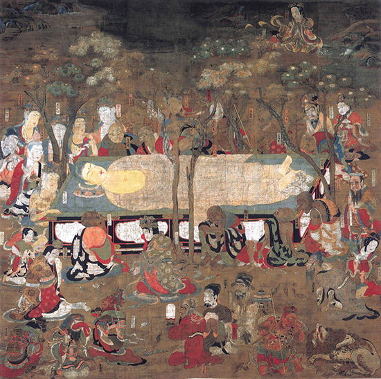 Buddha's Nirvana (絹本著色仏涅槃図, kenpon chakushoku butsunehan zu). Hanging scroll, 267.6 cm x 271.2 cm. Color on silk. Located at Kongōbu-ji, Mt. Kōya, Wakayama, Japan.